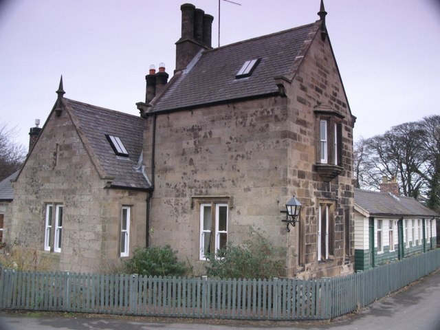 The (former) station buildings at Bardon Mill